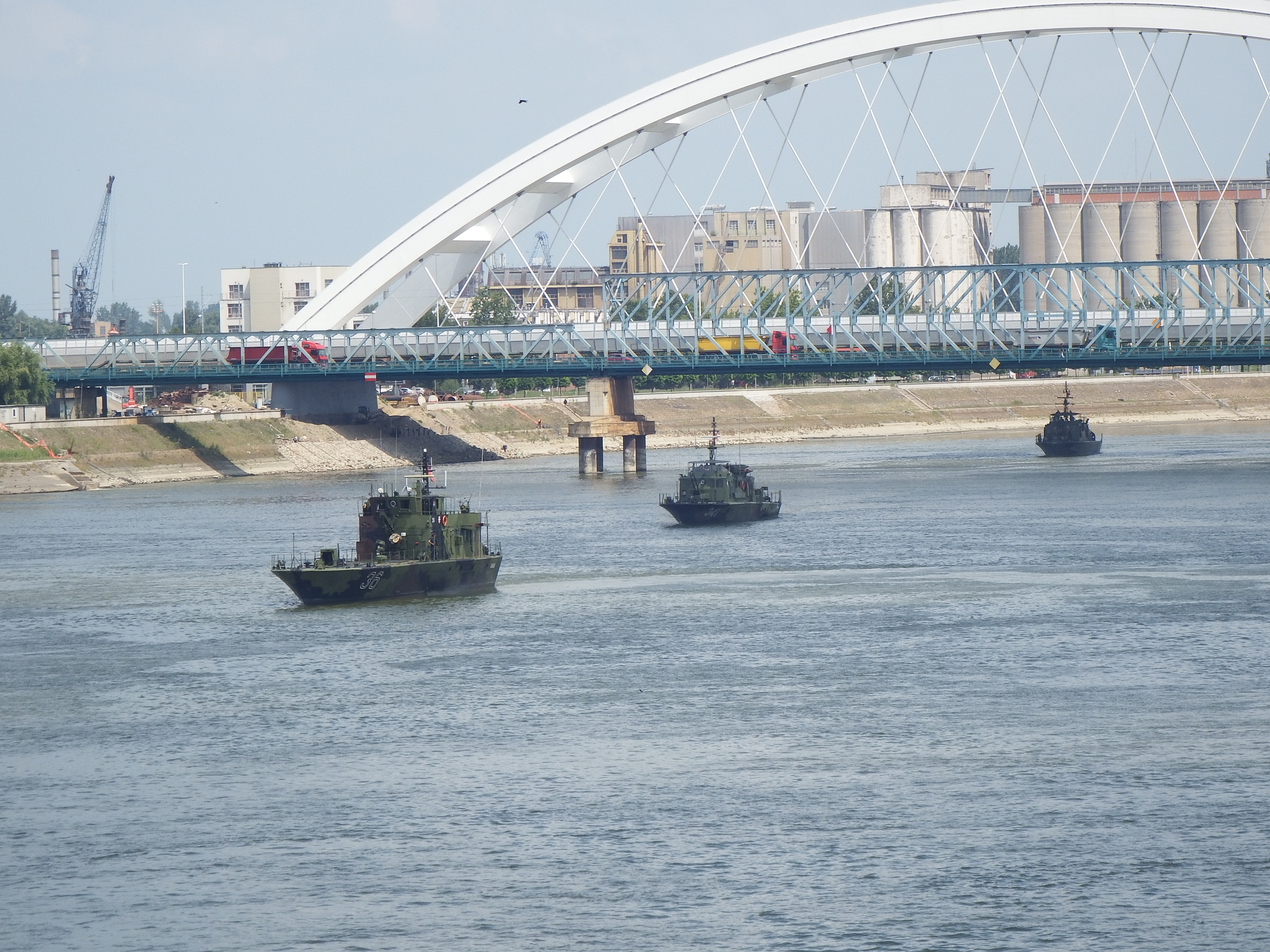 The military sheeps of Serbia on the river Danube, Novi Sad, Republoc of Serbia